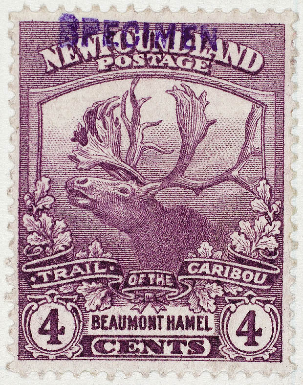 In 1919 a special set of 12 stamps were issued to commemorate the services of the Newfoundland Regiment during World War 1. The phrase "Trail of the Caribou" originated with Lt. Col. Nangle, Roman Catholic Chaplain of the Royal Newfoundland Regiment. The badge of the Regiment consisted of the head of a caribou over a ribbon lettered Newfoundland. In keeping with their emblem, a design of a caribou had been selected to represent this particular issue.